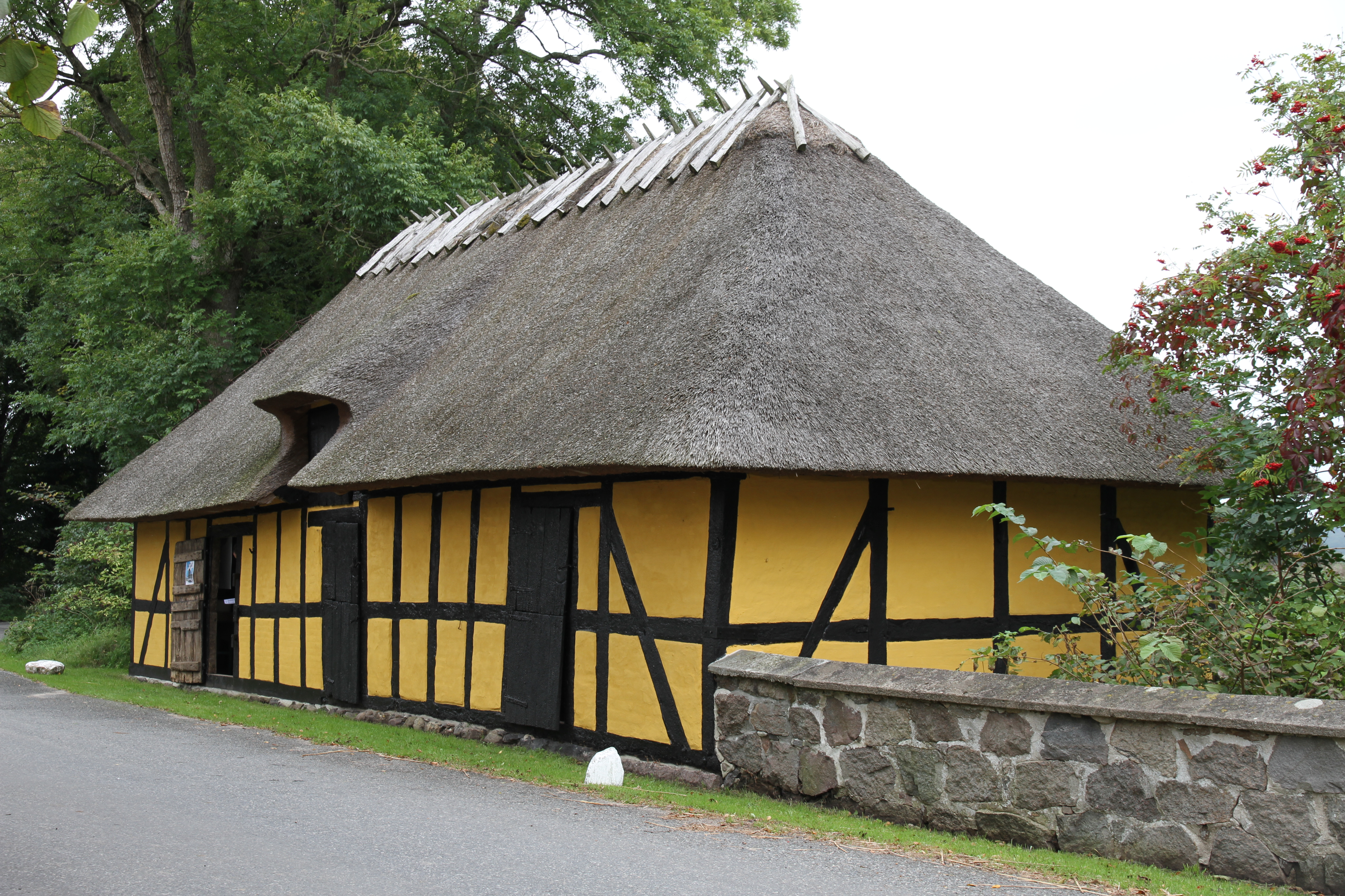 Pictures taken during the tims congress september 2011 Grubbe watermill